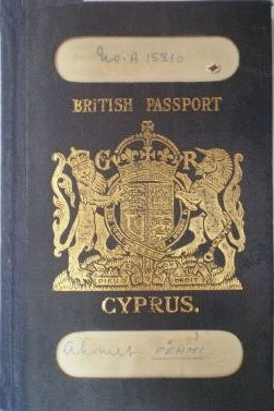 British Cyprus (1914–1960) passport — for British Cypriots.